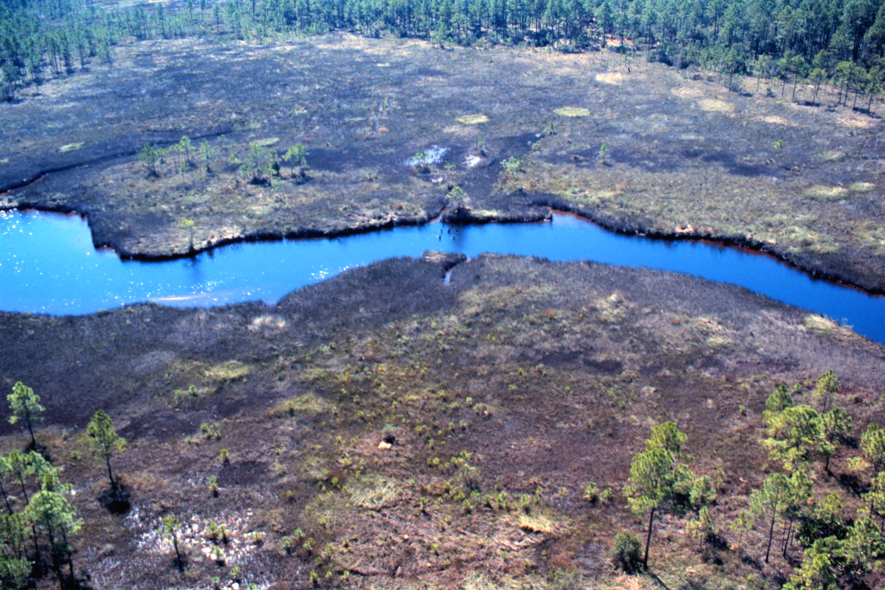 Grand Bay National Estuarine Research Reserve. West over Bayou Heron "alligator alley" showing pilings from old logging road bridge in center of photo.[1]